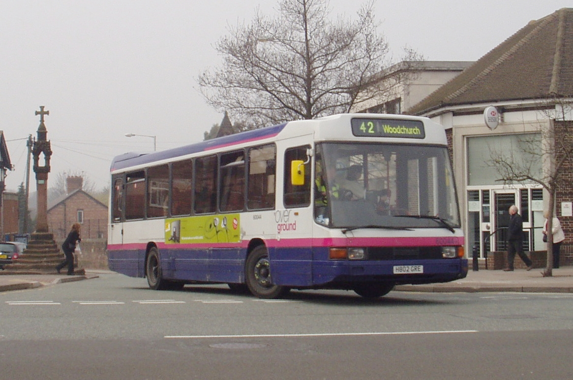 First Chester and the Wirral bus 60044, H802 GRE, a DAF SB220 / Optare Delta, at Bromborough Cross, Wirral.